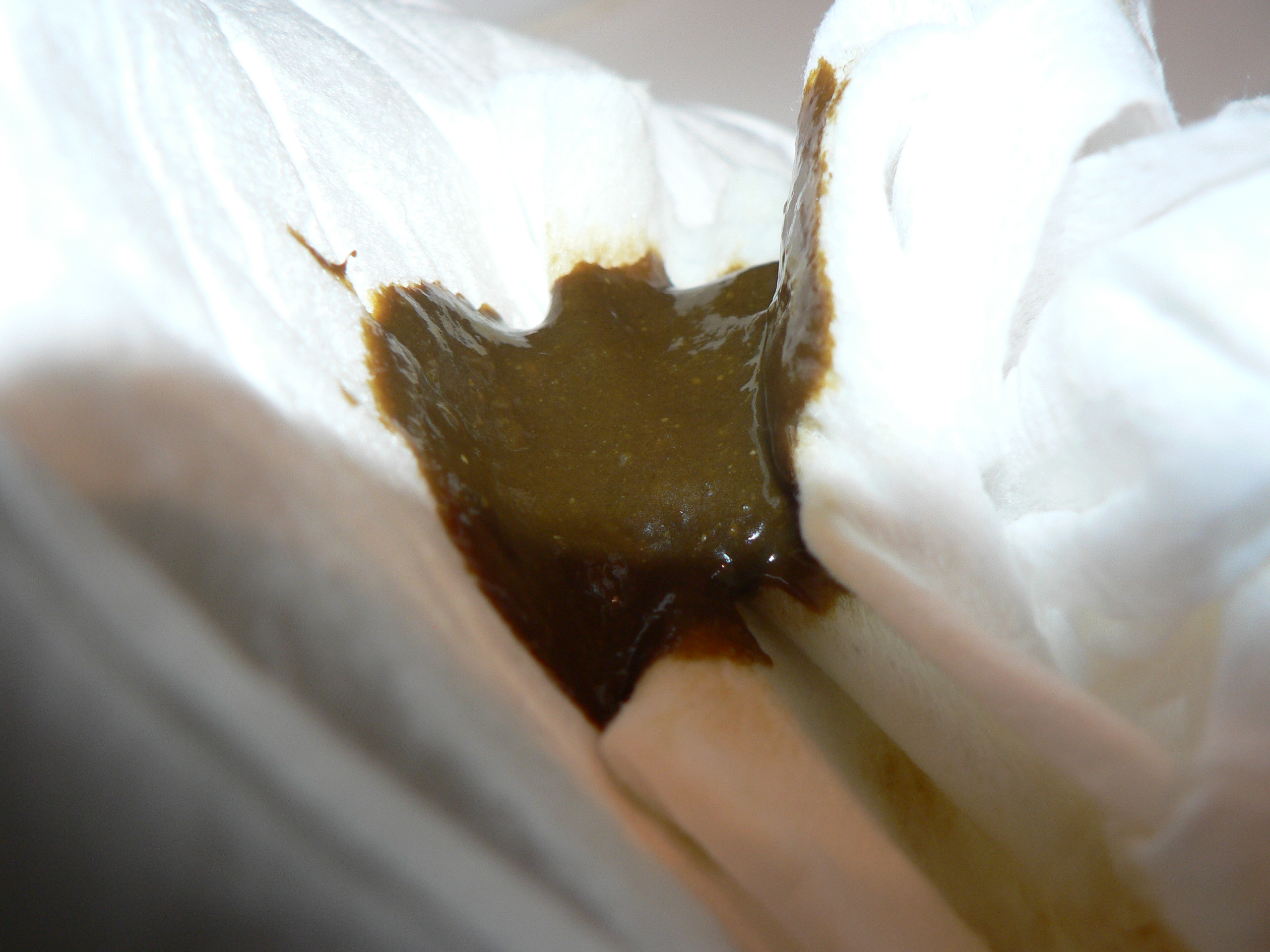 meconium